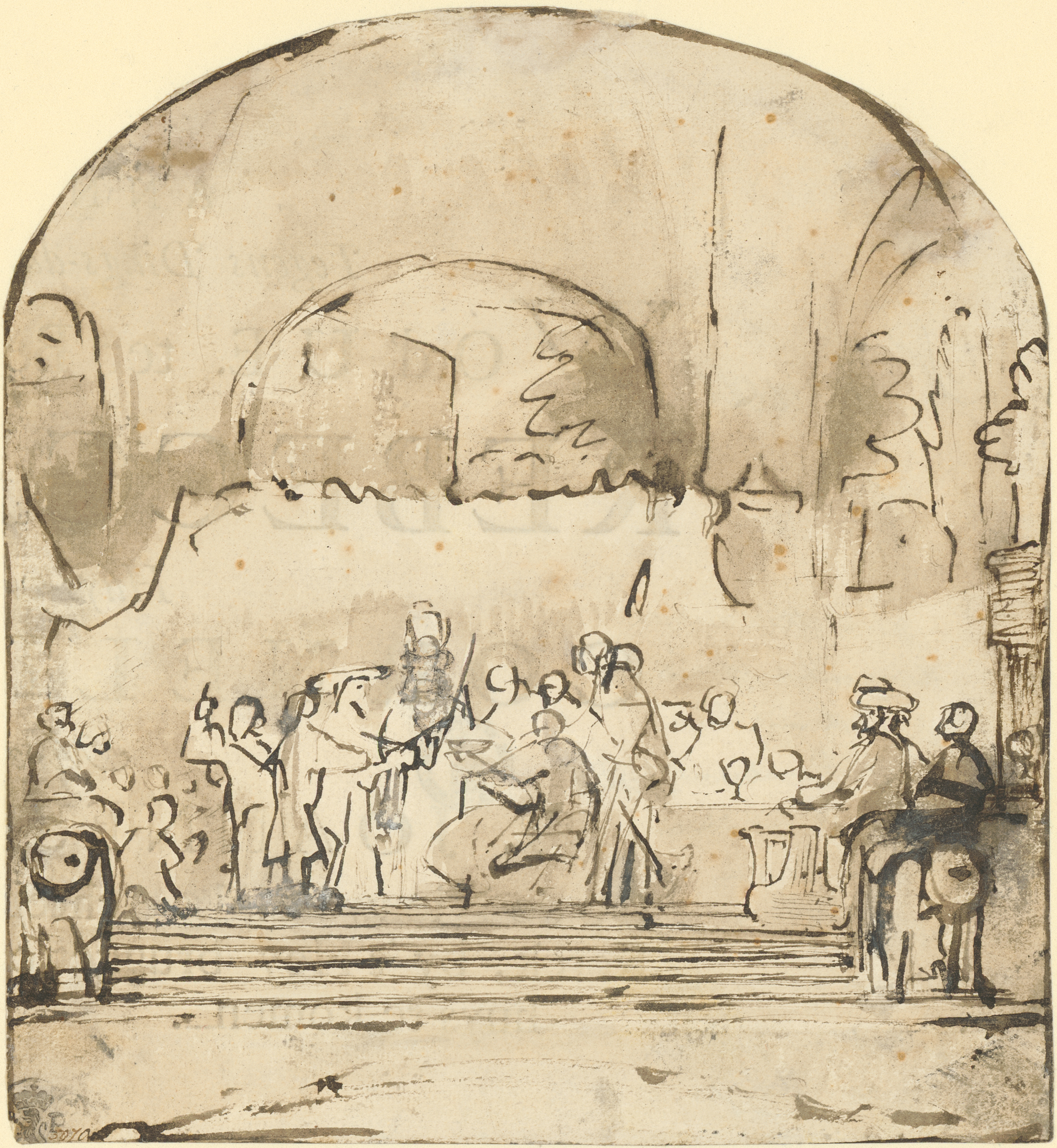 (recto). Includes additional rectangle showing approximate location of the cut down painting entitled 'The Conspiracy of Claudius Civilis' 1661-1662, now held at Nationalmuseum in Stockholm.